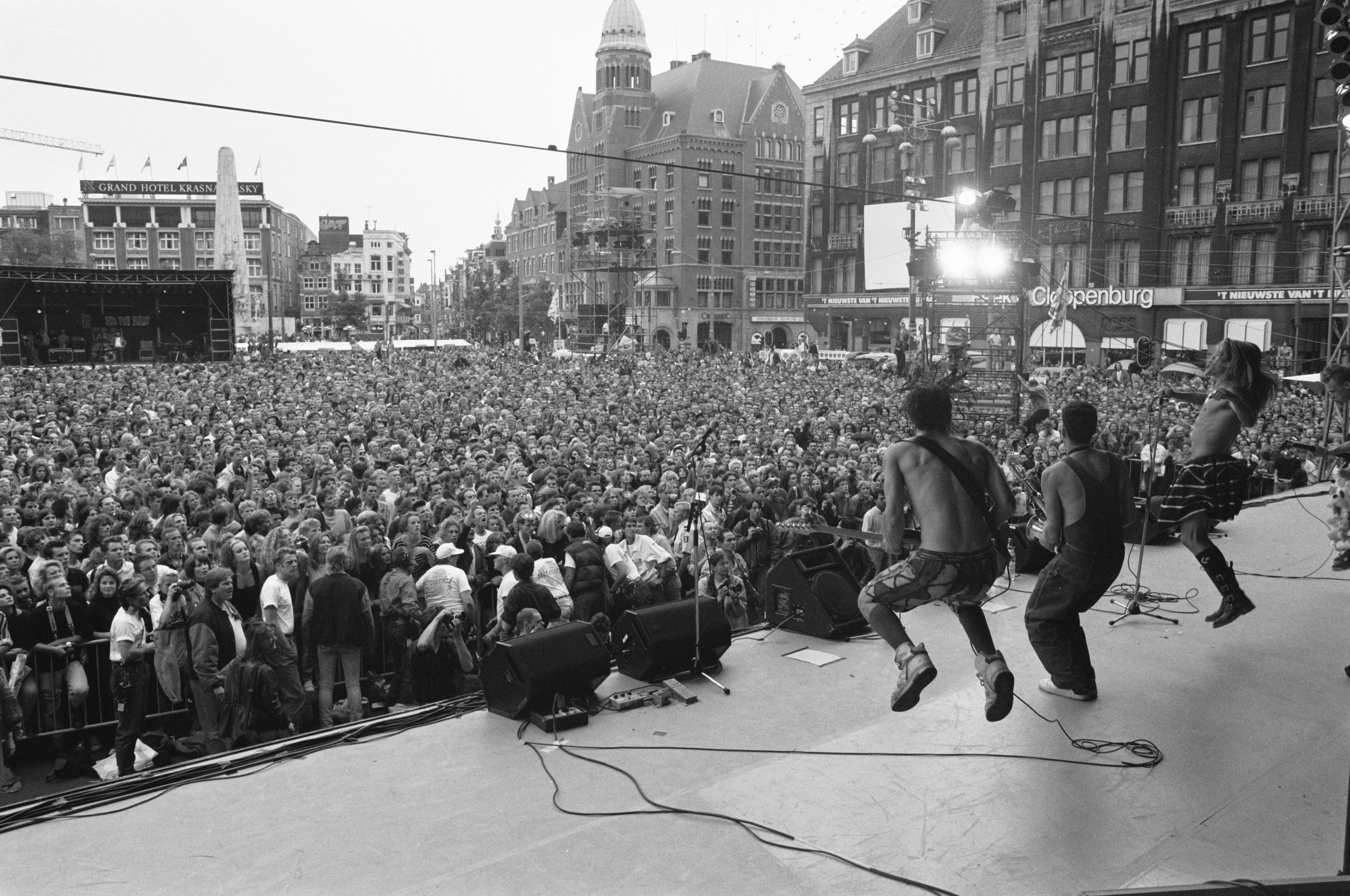 Red Hot Chili Peppers, Uitmarkt 26 Aug. 1989, Amsterdam (the Netherlands)